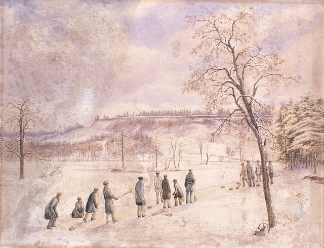 Curling in High Park, Toronto.label QS:Len,"Curling in High Park, Toronto."label QS:Lfr,"Partie de curling au parc High, Toronto."